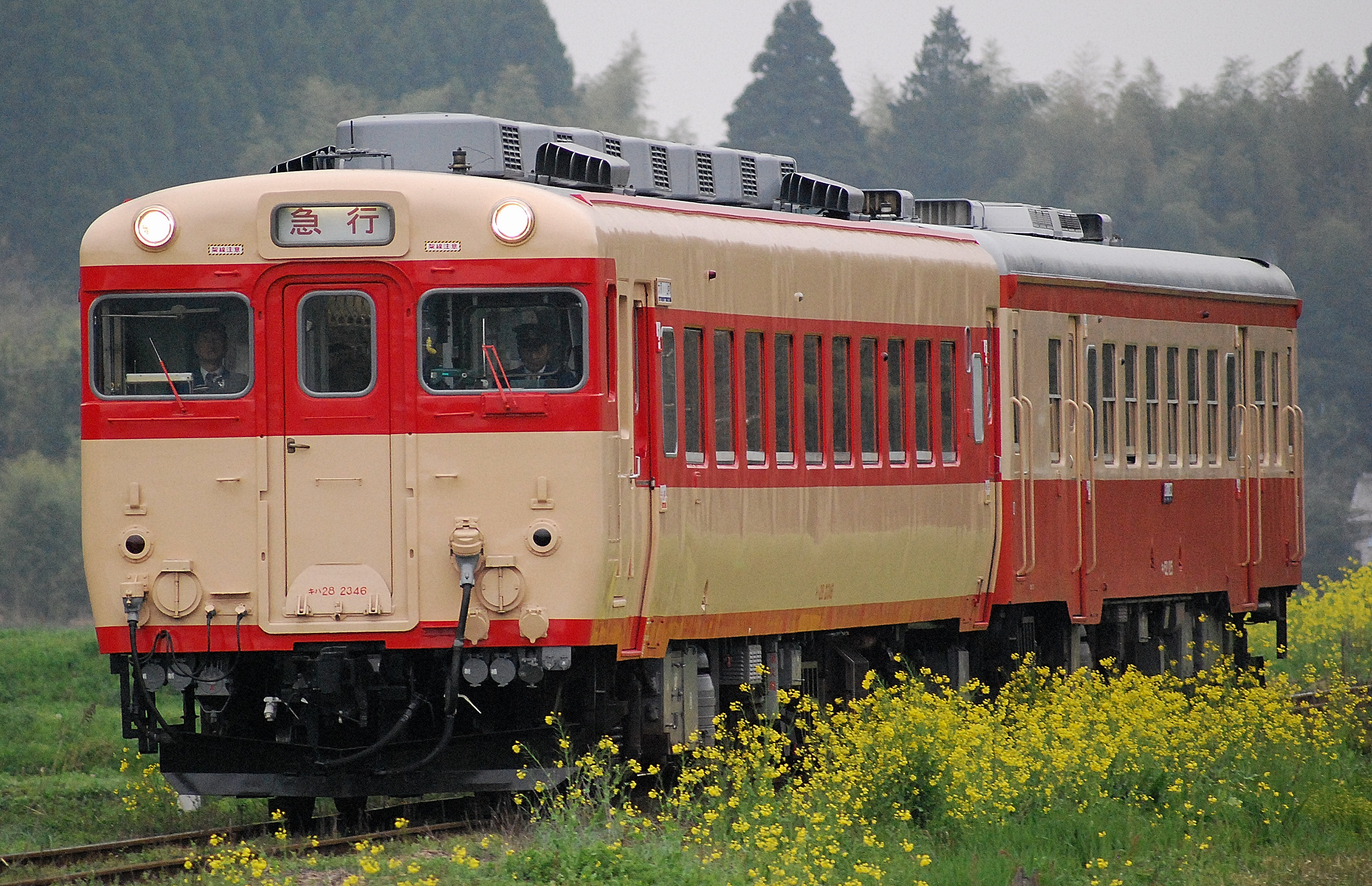 Former JR West KiHa 28 DMU car KiHa 28 2346 together with KiHa 52 125 on the Isumi Railway